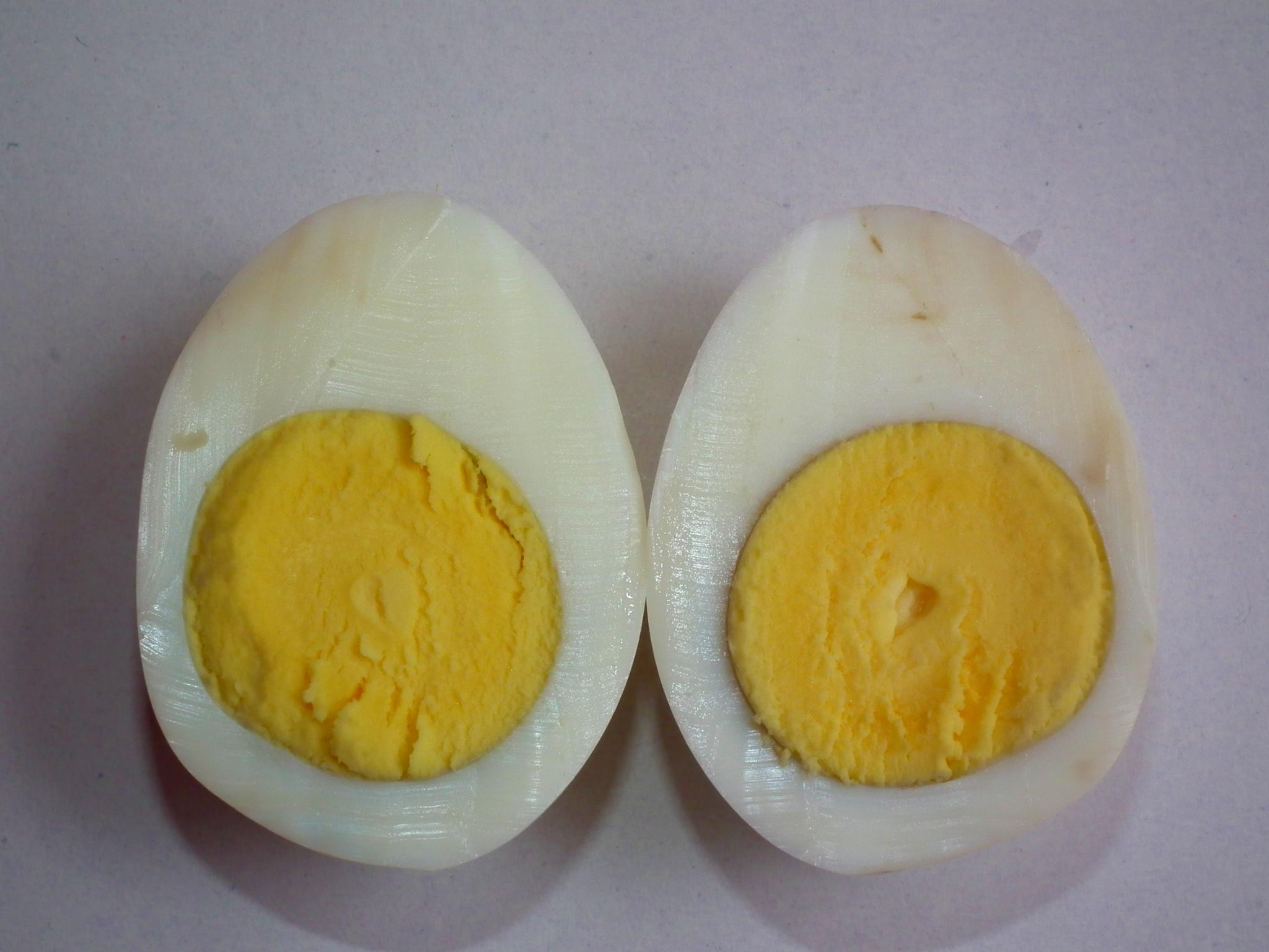 Boiled eggs are eggs (typically chickens' eggs) cooked by immersion in boiling water with their shells unbroken. (Eggs cooked in water without their shells are known as poached eggs, while eggs cooked below the boiling temperature, either with or without the shell, are known as coddled eggs.) Hard-boiled eggs are either boiled long enough for the egg white and then the egg yolk to solidify, or they are left in hot water to cool down, which will gradually solidify them, while a soft-boiled egg yolk, and sometimes even the white, remains at least partially liquid.